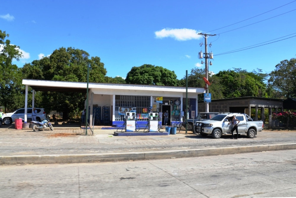 Una gasolinera en San Lorenzo, municipio de Nagarote, al lado de la Carretera Vieja a León.